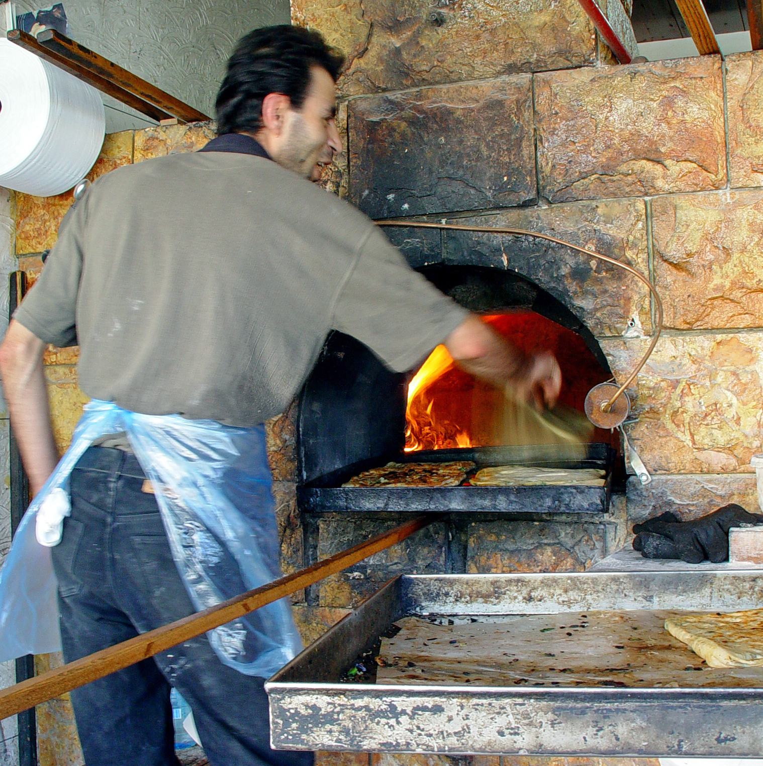 Pita Bakery in Istanbul